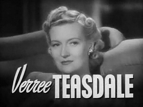 Screenshot of Verree Teasdale from the film Come Live with Me